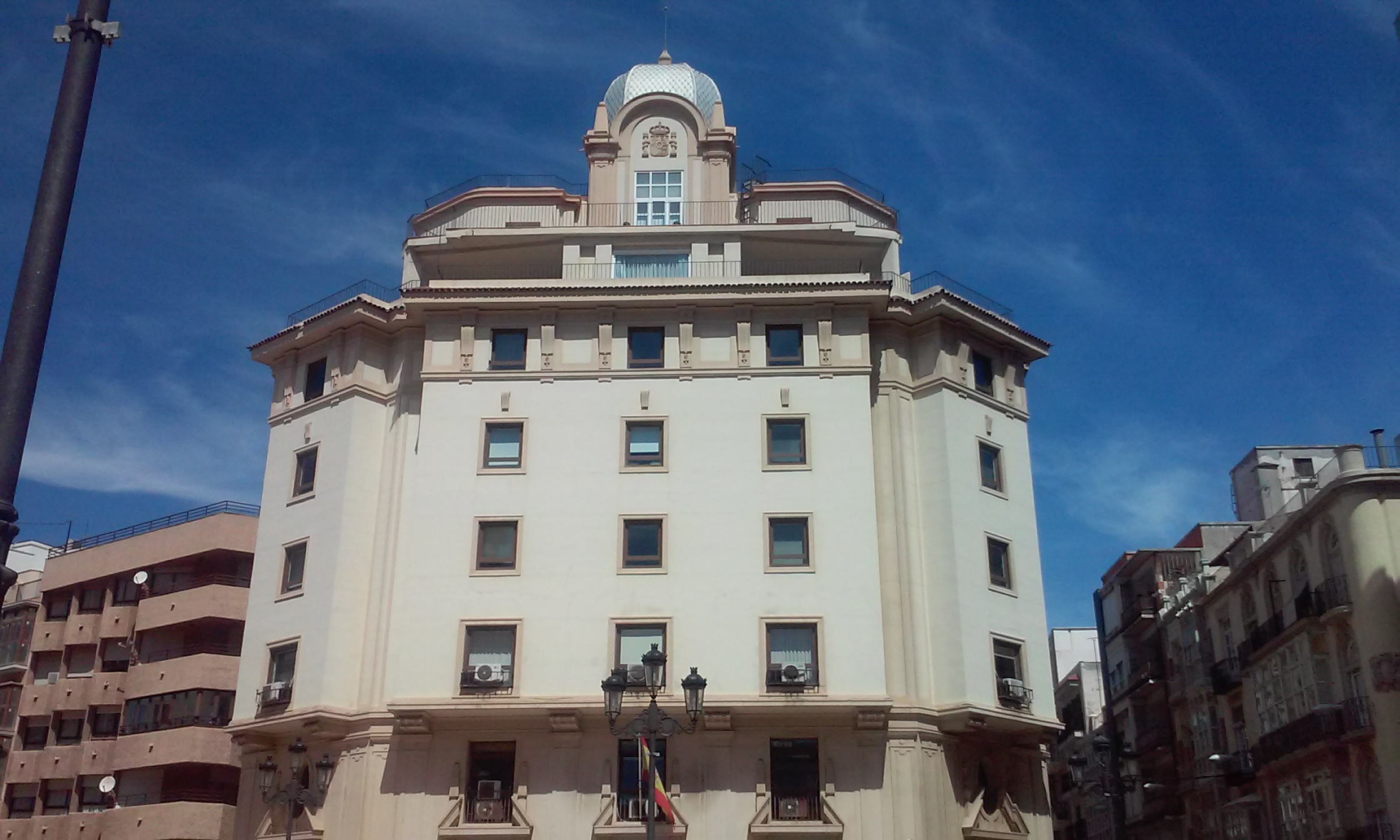 The headquarters of the Commonwealth of Taibilla Channels (Cartagena, Spain), the agency responsible for ensuring the supply of drinking water to several towns in the provinces of Albacete, Alicante and Murcia.